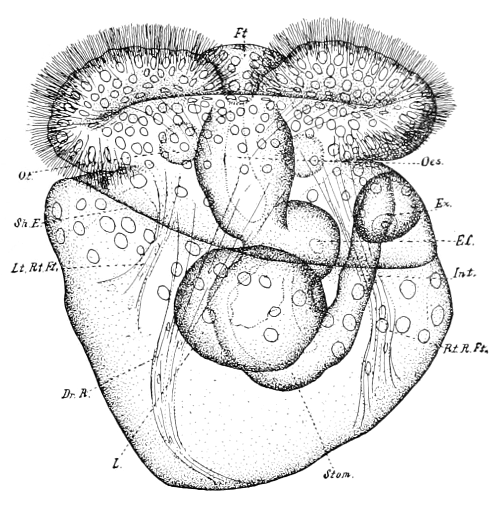 Drawing of dorsal view of well developed veliger of Fiona pinnata.